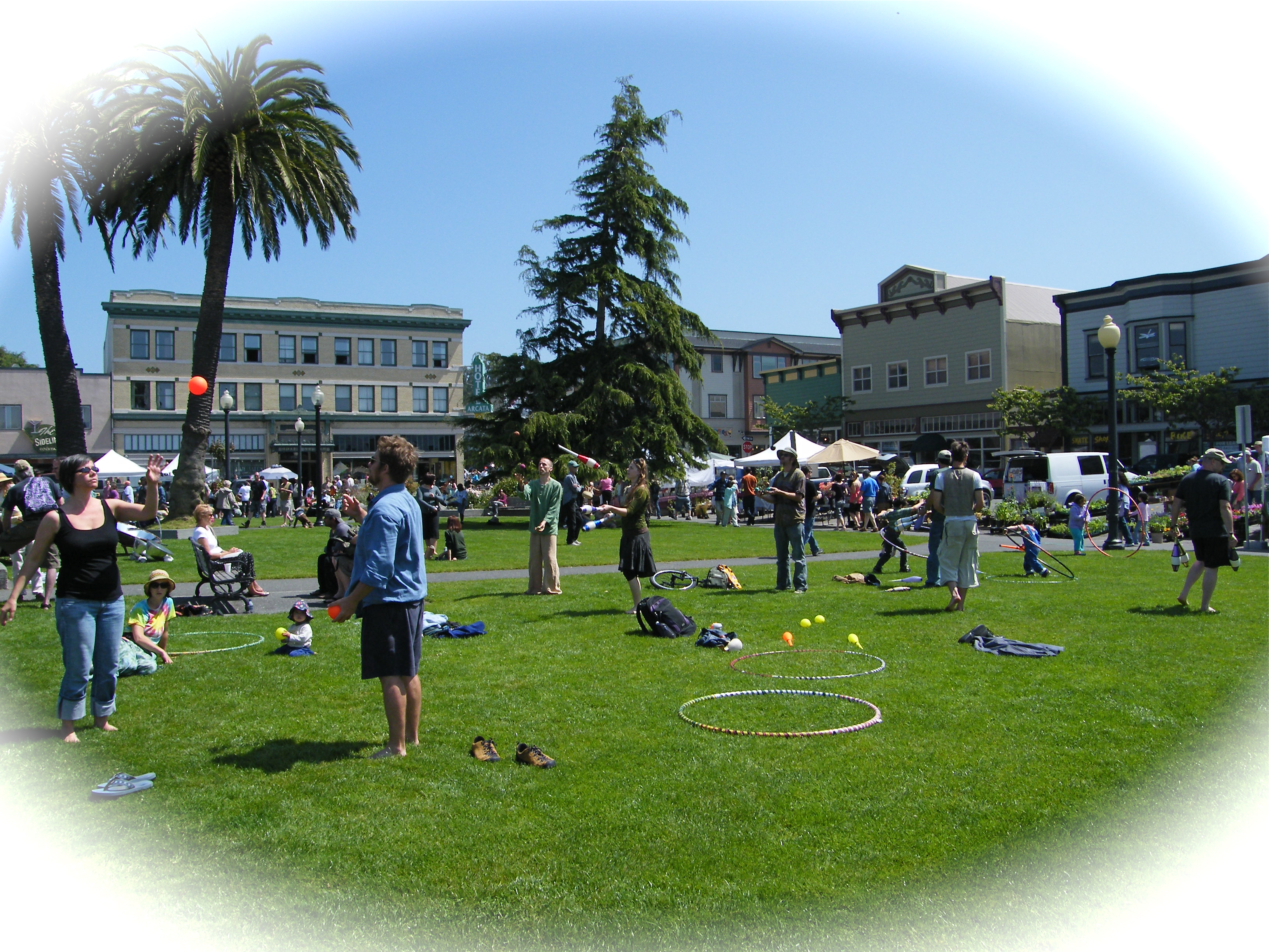 At the Arcata Farmers' Market, 6-27-09